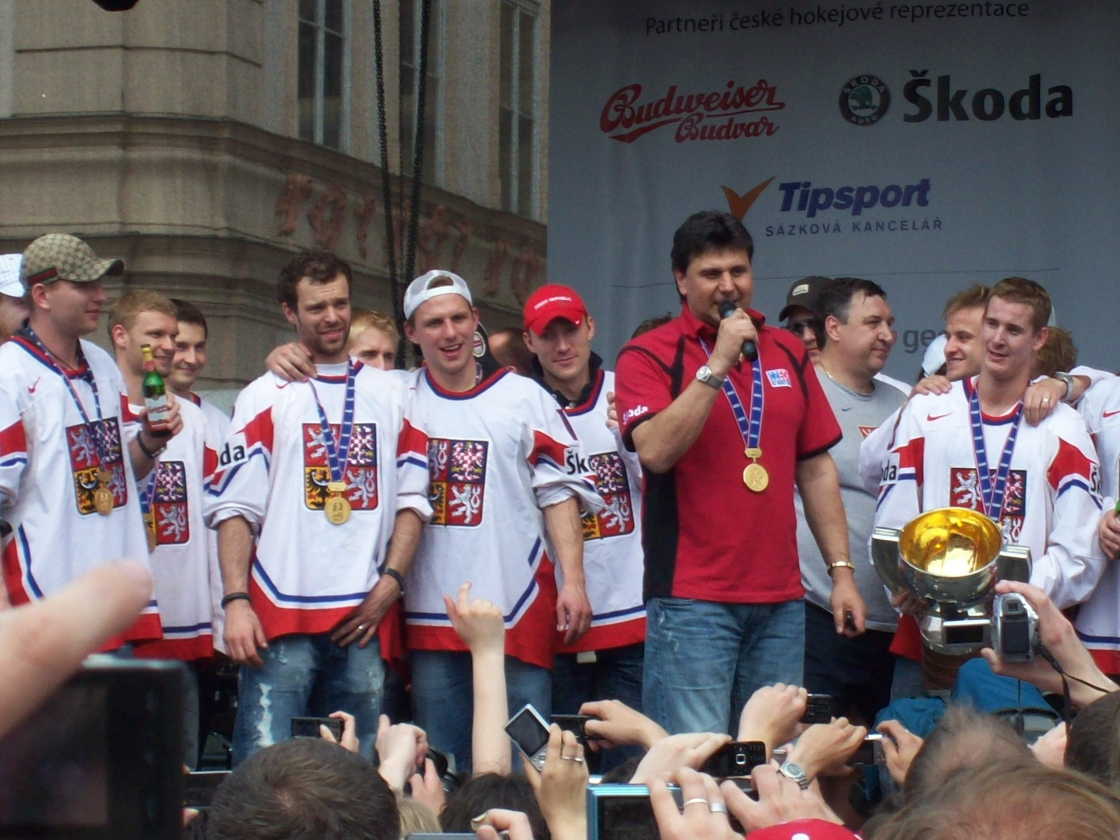 Vladimír Růžička and the Czech ice hockey team 2010